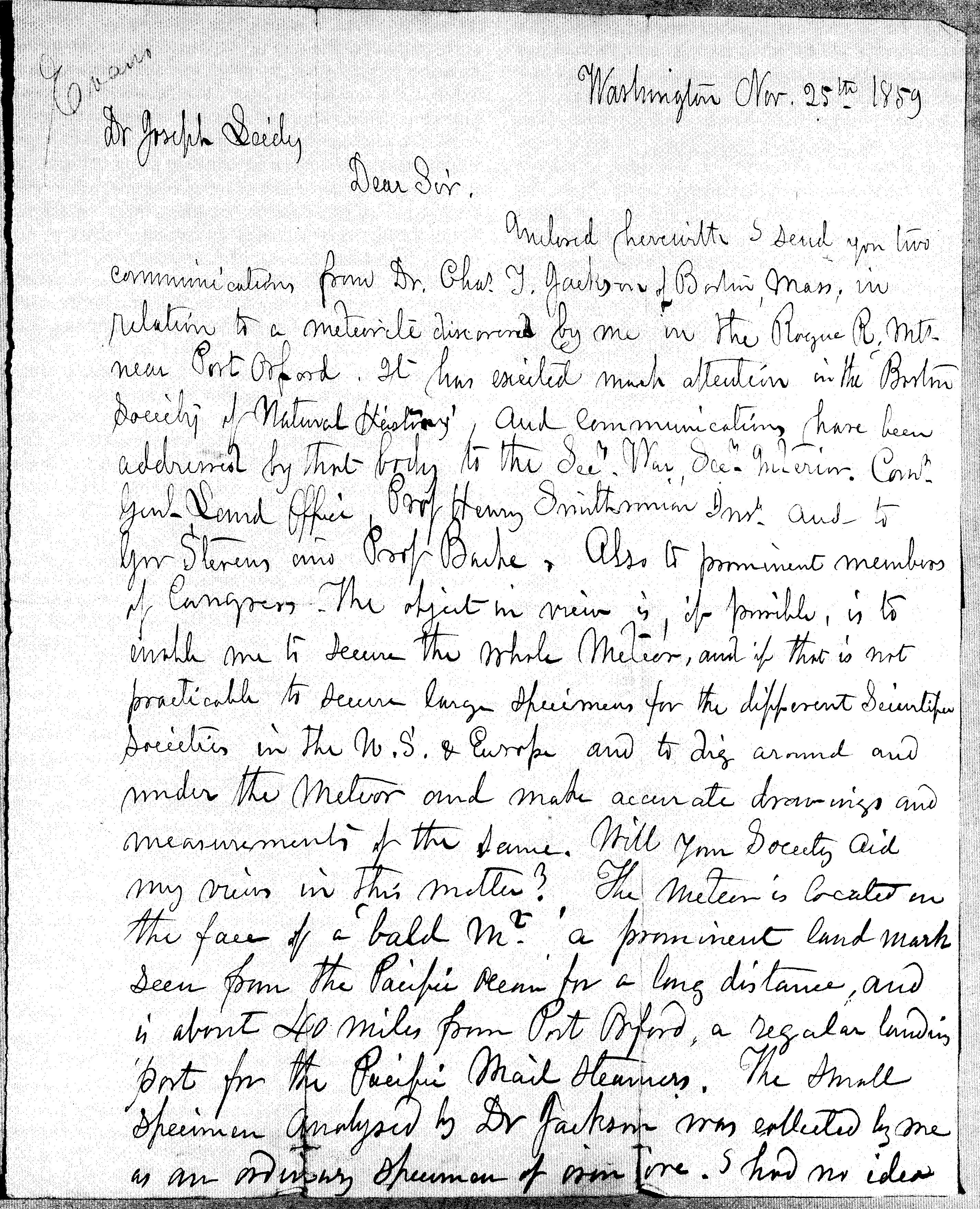 Letter from Dr. John Evans, U.S. government geology agent in the Oregon area, to Joseph Leidy of Philadelphia, dated November 25, 1859